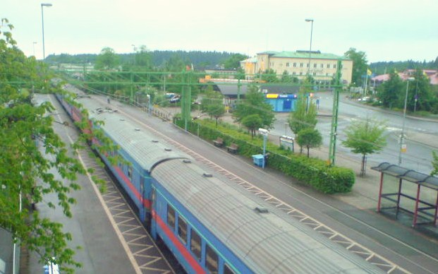 Train departure from Sävsjö in southbound direction from Stockholm and view over part of Sävsjö's town centre.